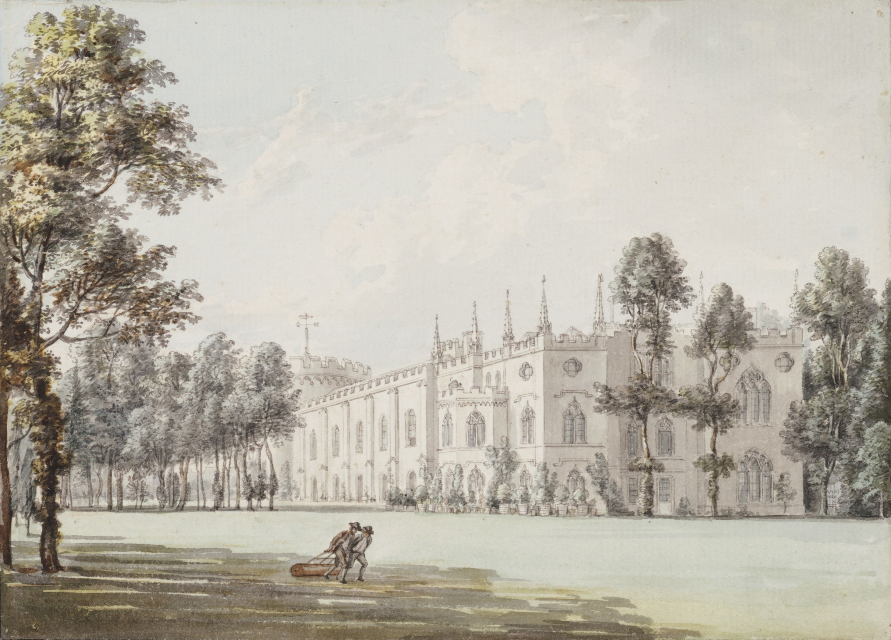 Strawberry Hill from the Southeast